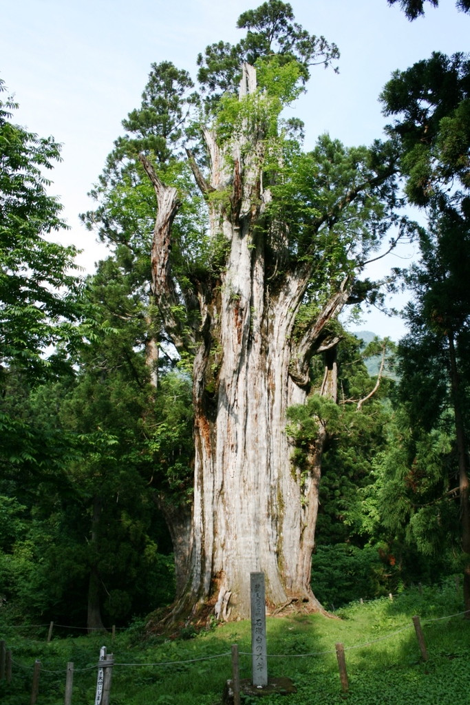 Itoshiro no ōsugi (Big Cryptomeria japonica) from south in Gujo city, Gifu prefecture, Japan.